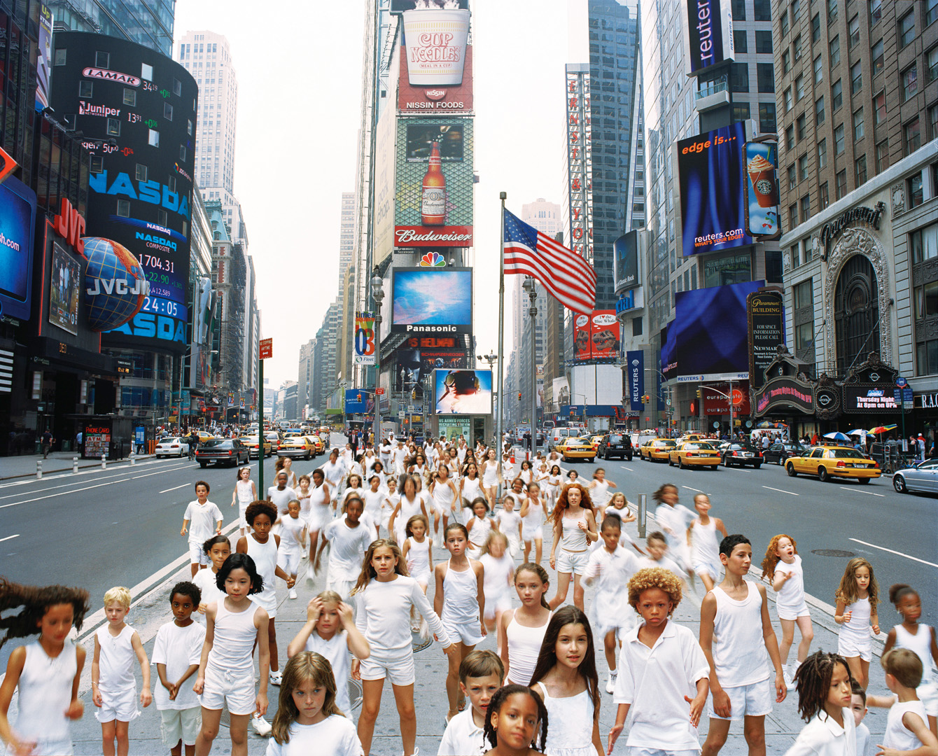 King of The Forest, New York by AES+F, 2003 Photograph taken at Military Island in Times Square, as part of the King of The Forest project by AES+F.